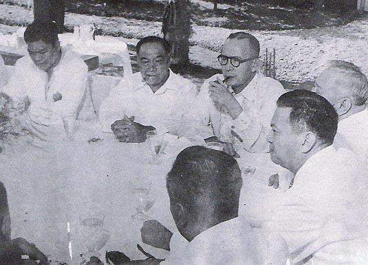 from family photos (Carlos E. Primicias MD)